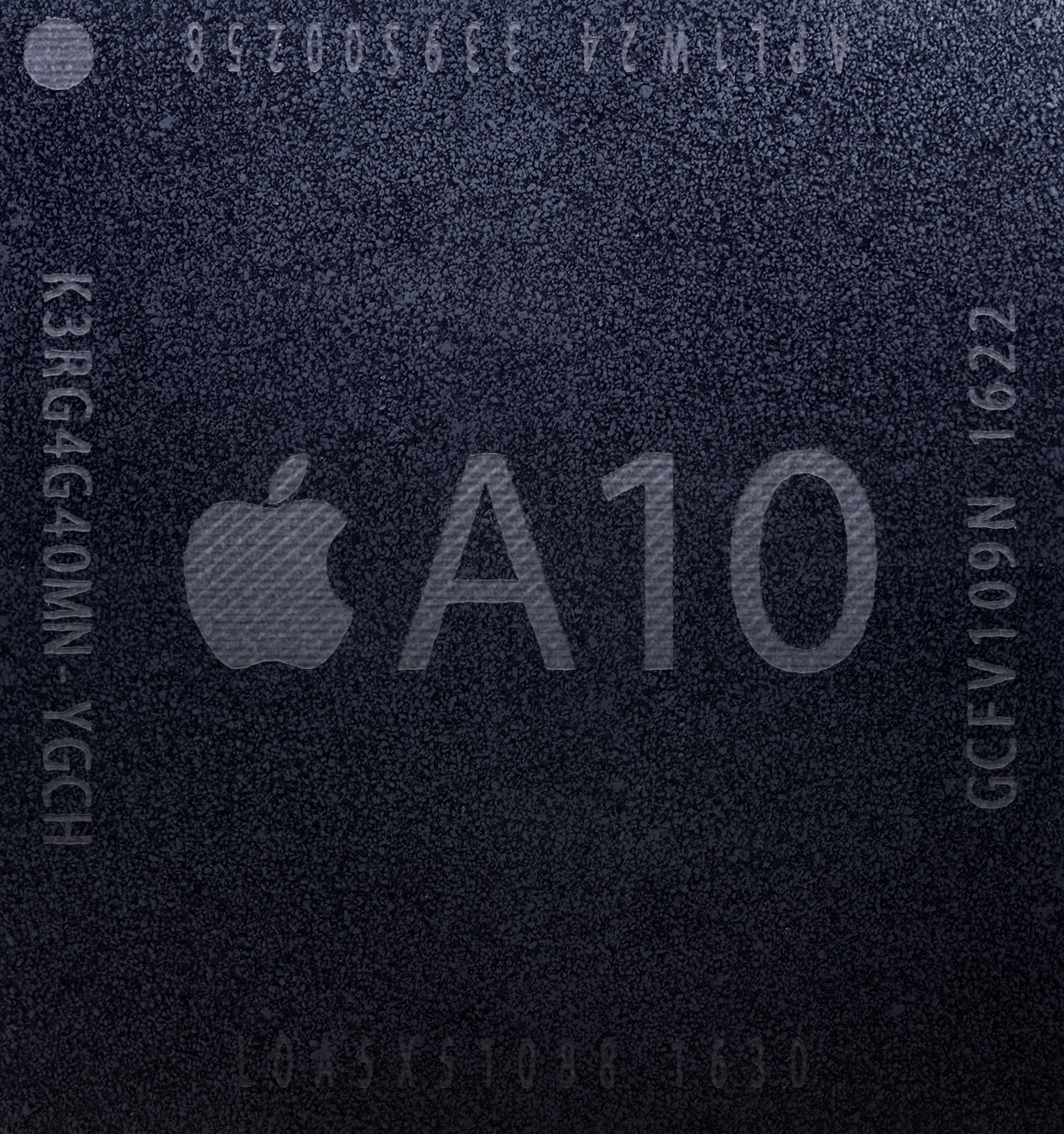 Apple A10 Fusion system-on-a-chip. This is the one in the iPhone 7 Plus.